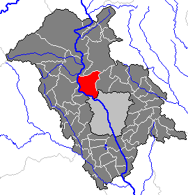 This map shows the area of the Gemeinde (municipality) Gratkorn in the Bezirk (district) Graz-Umgebung, Styria, Austria.